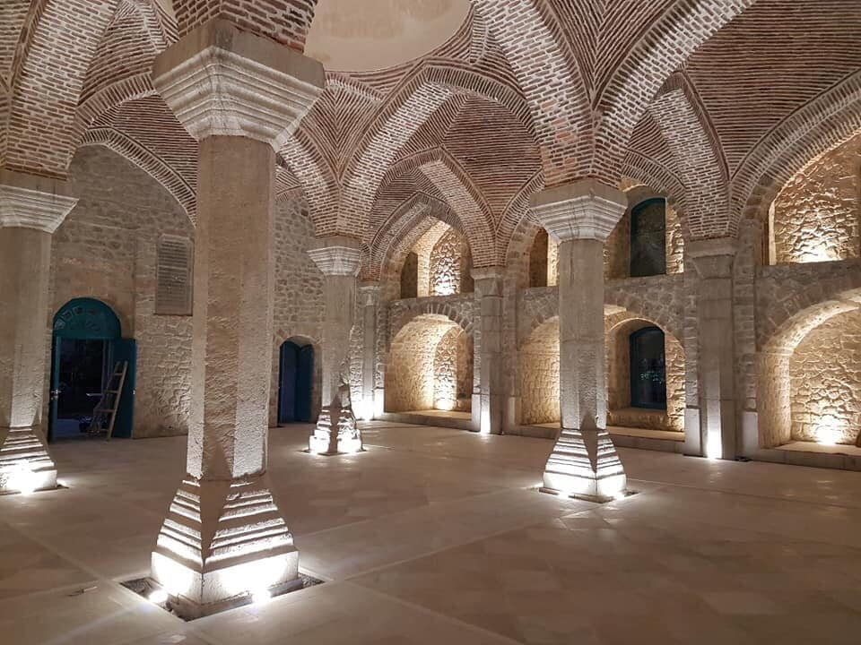 The newly restored interior of the Govhar Agha Mosque